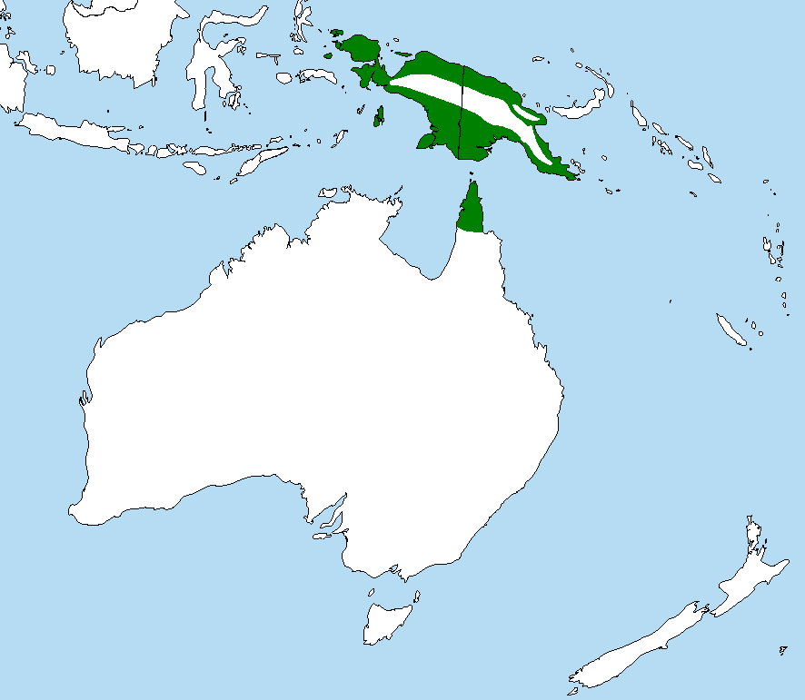 Summary Distribution of the Palm Cockatoo Probosciger aterrimus Based on Image:A large blank world map with oceans marked in blue.PNG, distribution details from Handbook of the Birds of the World 4: 271.